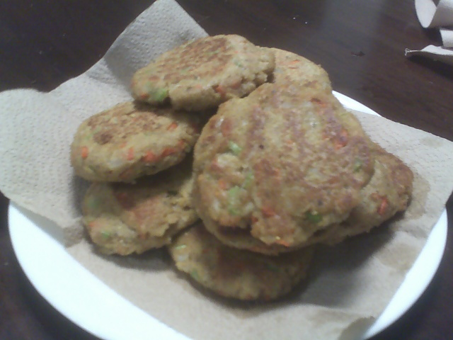 vegan okara burgers. the finished product.